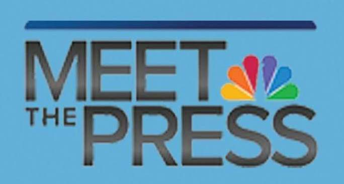 Nancy Pelosi